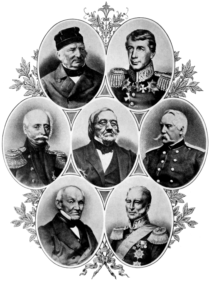 The founding members of the Russian Geographical Society: Friedrich Georg Wilhelm (Vasily) von Struve, Adam Johann (Ivan) von Krusenstern, Ferdinand von Wrangel, Karl Ernst von Baer, Gregor von Helmersen, Peter (Pyotr) von Köppen, Pyotr Rikord